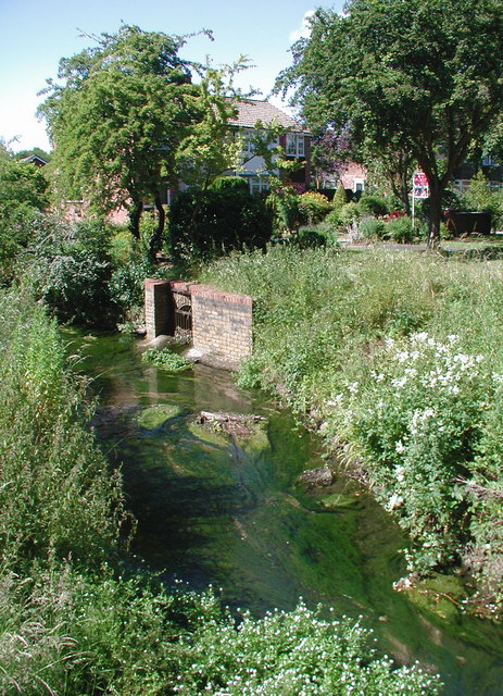 Laceby Beck: Looking southwest from the Grimsby Road bridge which was built in 1955. The village of Laceby and its once congested streets have since been bypassed by the A46 to the south.